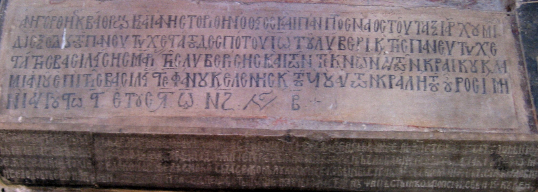 Lesnovo Monastery Inscription